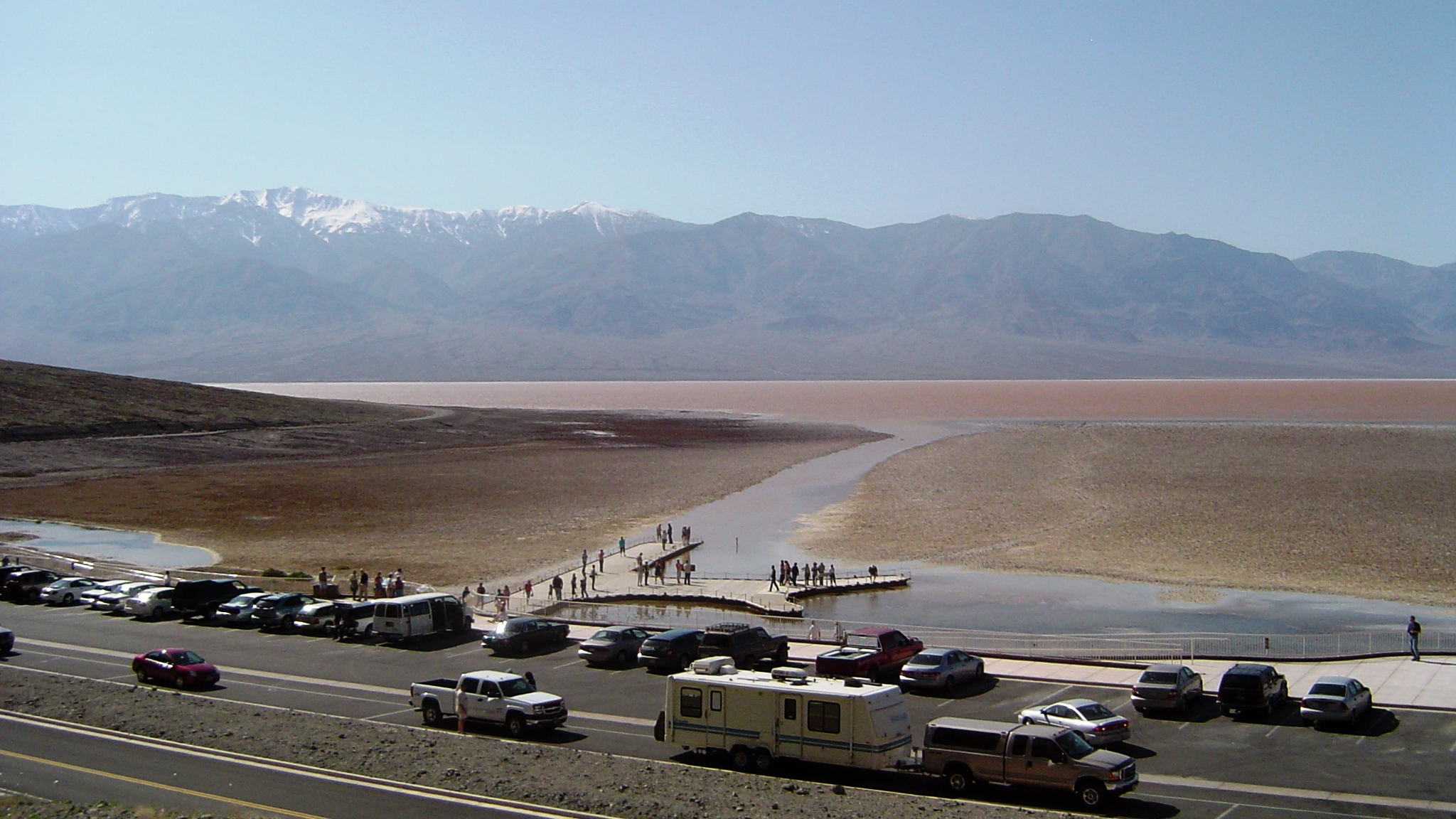 Tourist area around Badwater Basin, 282 feet below sea level, flooded by ephemeral Lake Badwater, Death Valley National Park, California. Panamint Range and Telescope Peak in the background.